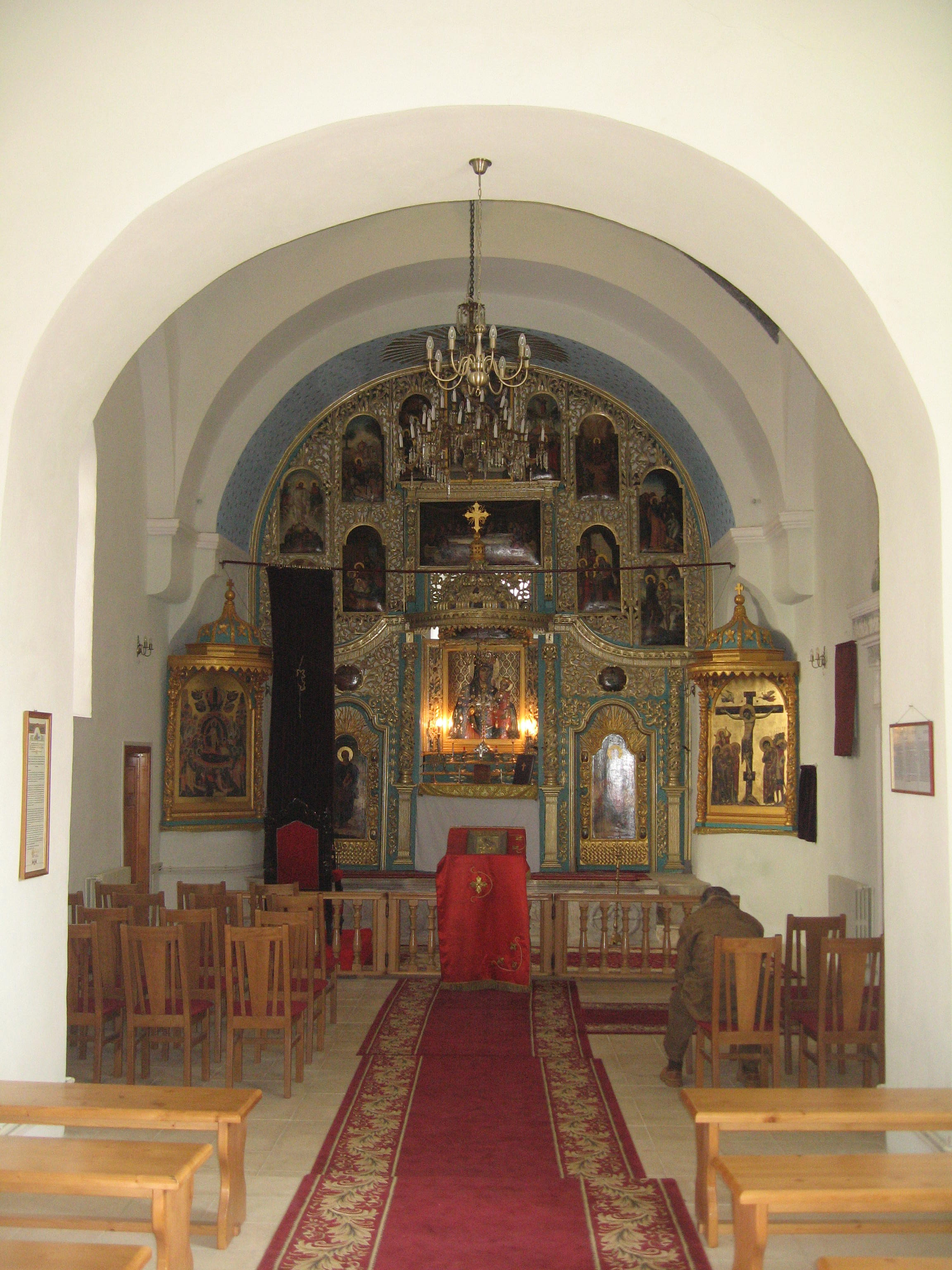 Armenian church in Iași